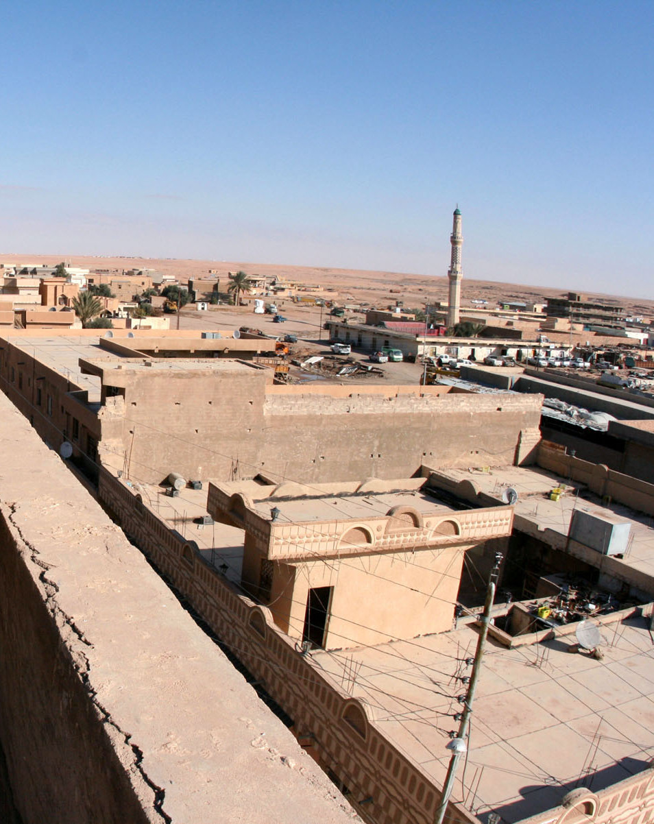 Sgt. Kirby Fanus (front), a squad leader with Echo Company, 2nd Battalion, 25th Marine Regiment, Regimental Combat Team 5, and his platoon commander, Gunnery Sgt. Carl Lorio, survey the city of Rutbah, Iraq, from their vantage point atop a building during a patrol Jan. 1 to scout out security positions in preparation for the following day’s regional security meeting for Iraqi and Coalition leaders from throughout the region. A platoon from Echo Co. is currently attached to Tango Battery, 2nd Battalion, 10th Marine Regiment, an artillery unit operating out of Combat Outpost Rutbah in western al-Anbar province.